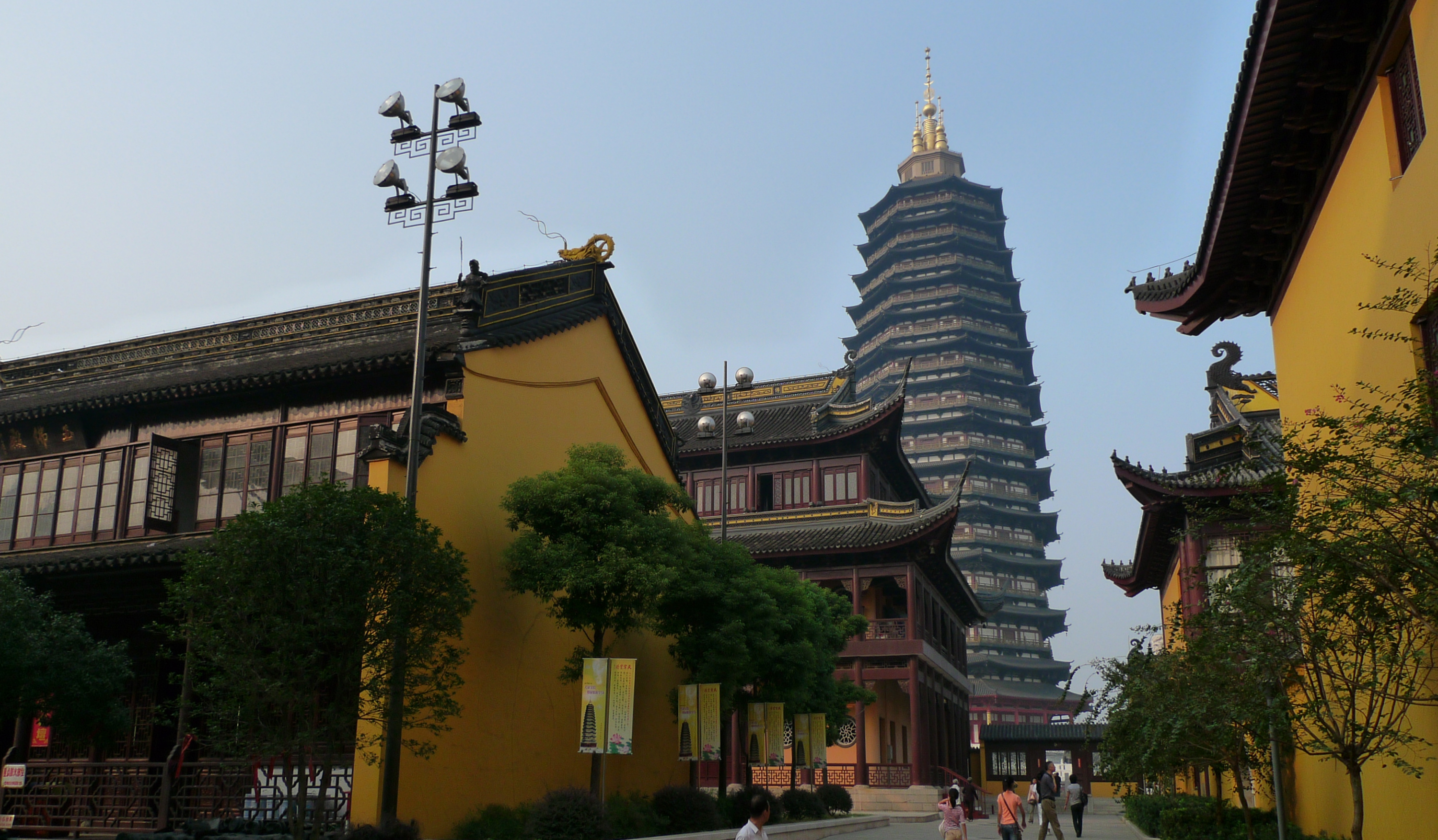 Tianning Temple, Changzhou, China.